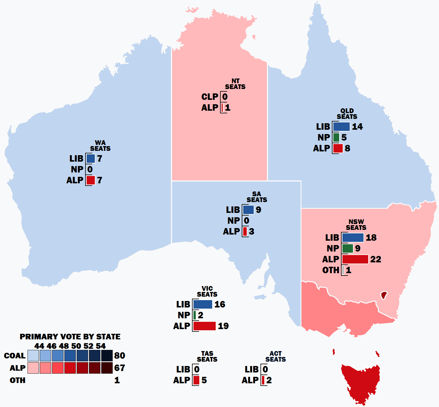 Result of the primary vote by state and territory in the 1998 Australian federal election.